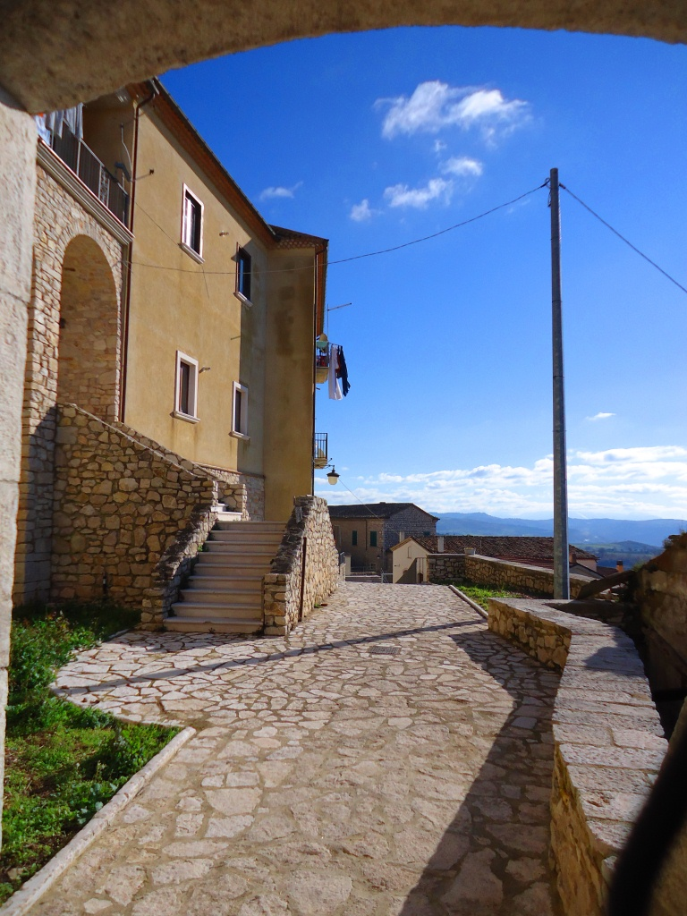 Former barrack in Gesualdo, Italy